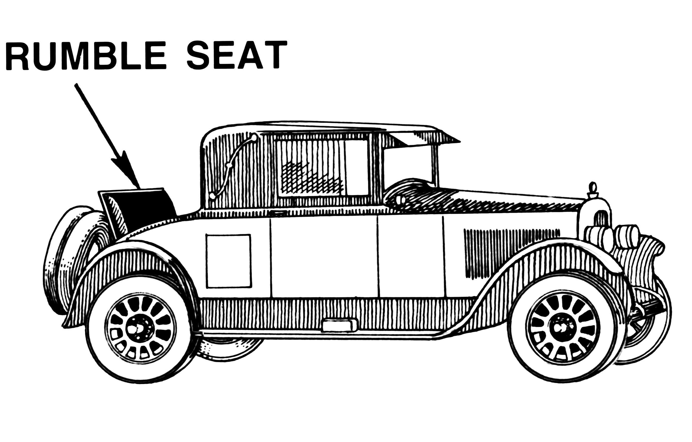 Line art drawing.